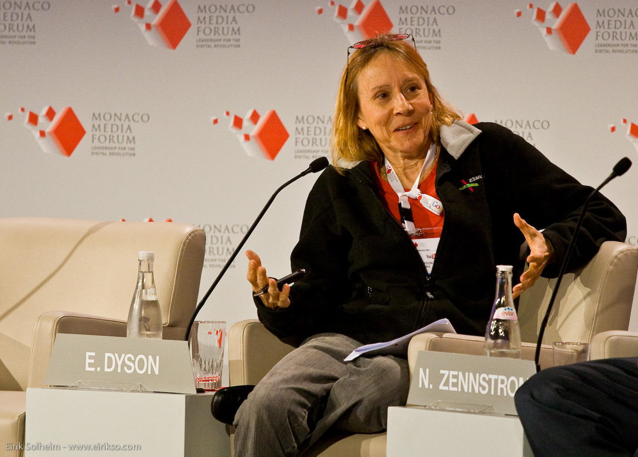 Esther Dyson speaking at the Monaco Media Forum in 2008